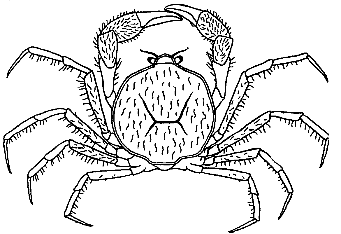 Drawing of Amarinus lacustris (=Hymenosoma lacustris) from Norfolk Island